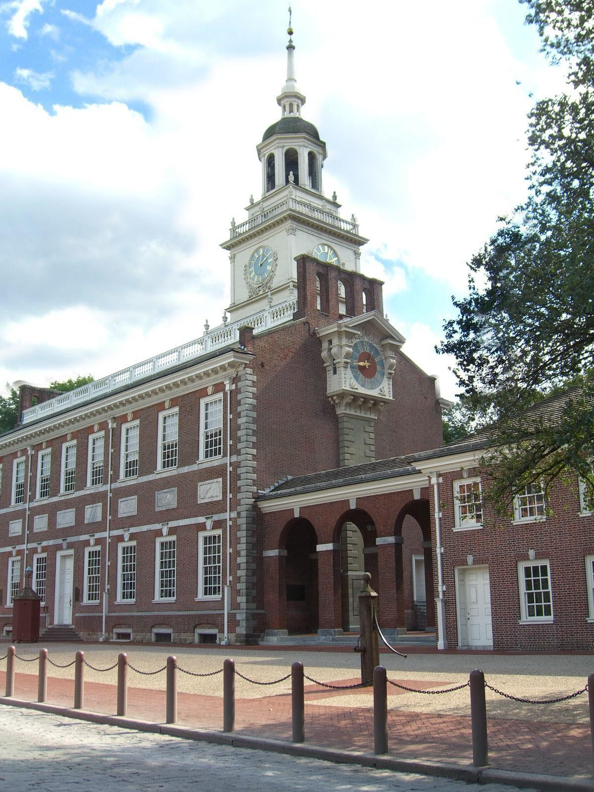 Independence Hall in Philadelphia, September 26, 2006. Photographed by Luigi Novi. This photo is not in the public domain. It may, however, be used, modified and published for any purpose, free of charge, only if the photographer is properly credited, either by linking the photograph to this page, or with an easily visible credit to the photographer placed near the photo in each instance in which it is used. (See licensing information below.) Publication of this photo without this proper attribution constitutes copyright infringement. If you have any questions, you can contact me on my Wikipedia Talk Page.